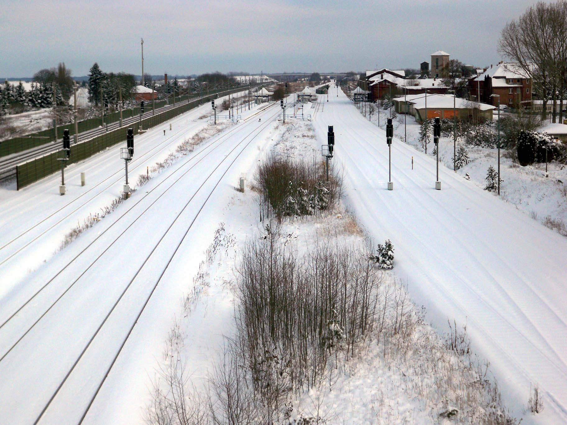 Oebisfelde Railway Station seen from bridge crossing the railway line west of the station